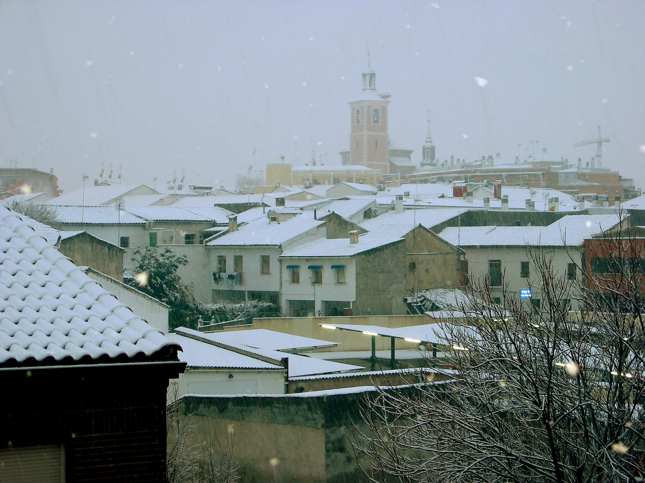 Snowfall in Valdemoro (Community of Madrid, Spain).